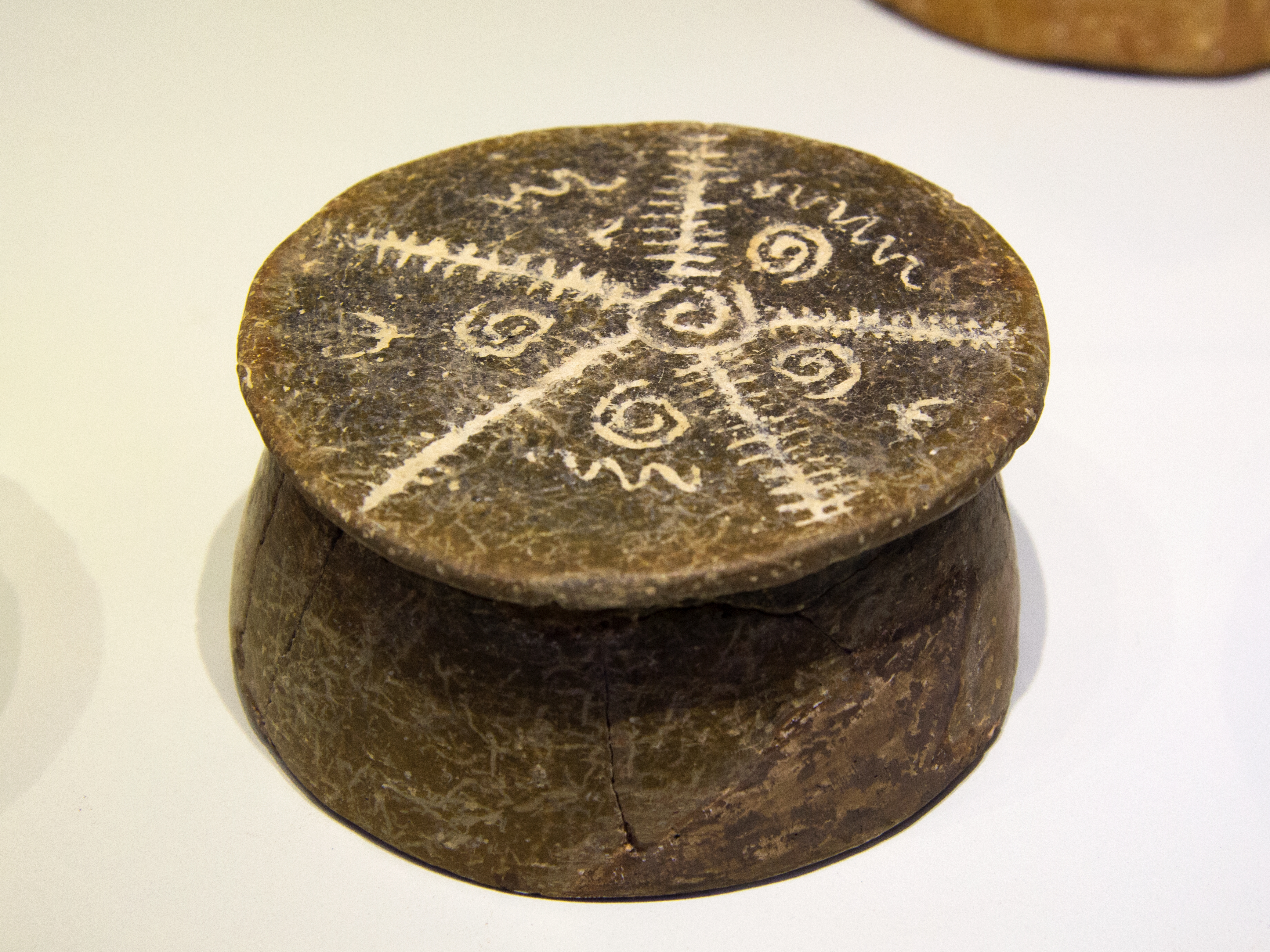 Cretan pottery of the cycladic type, clay pyxis with spirals. Gournes or Agios Onoufrios (Crete), 3000 – 2300 BC.